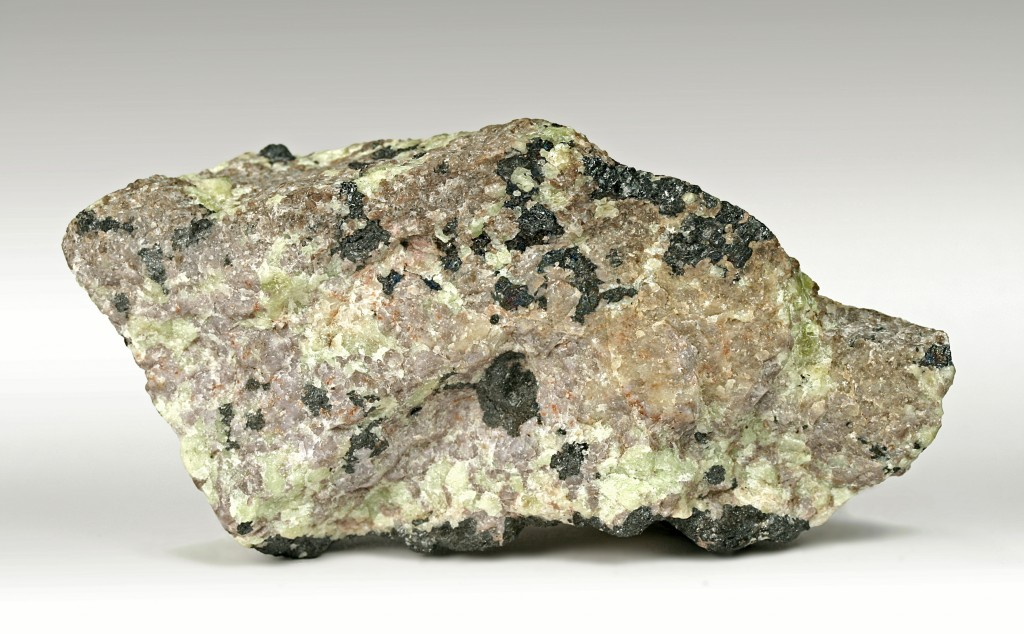 Glaucochroite Locality: Franklin Mine, Franklin, Franklin Mining District, Sussex County, New Jersey, USA Description: Glaucohroite with anhedral green willemite and black franklinite. In daylight (or under CFL) most of the glaucochroite looks milky to bright blue with some pink areas. Under tungsten the blue is less evident and the pink is enhanced. It looks even pinker (even to the eye) if a dark background is used - see the child photo. However, unlike some glaucochroite specimens where the pink is actually hardystonite, there appears to be no hardystonite here (there is very little if any blue fluorescence). Updated with a full res image Dec 2012. But it needs a redo under CFL or daylight to show the "true" color. Via Frank Edwards. MOB coll.